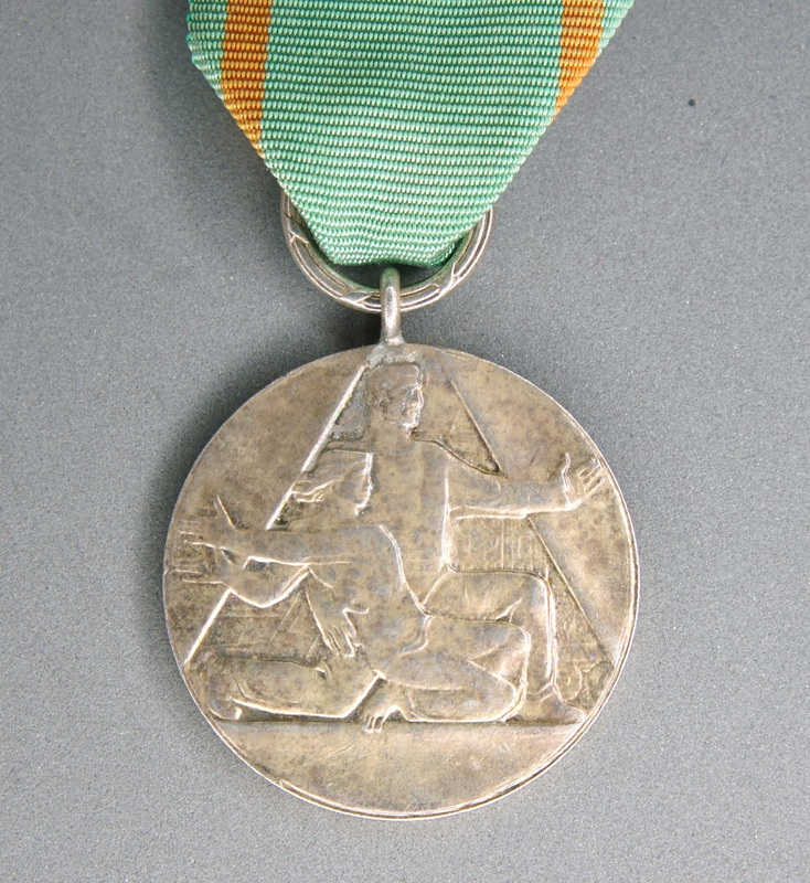 Medal for Sacrifice and Courage - Polish civilian award established in 1960. It was designed by Józef Gosławski.